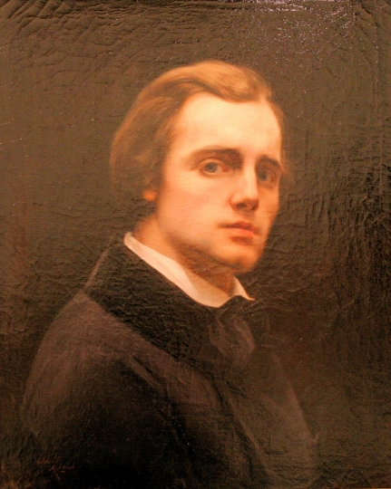 3/4 right selfportrait (Autoportrait de trois-quarts à droite), by Hippolyte Michaud.